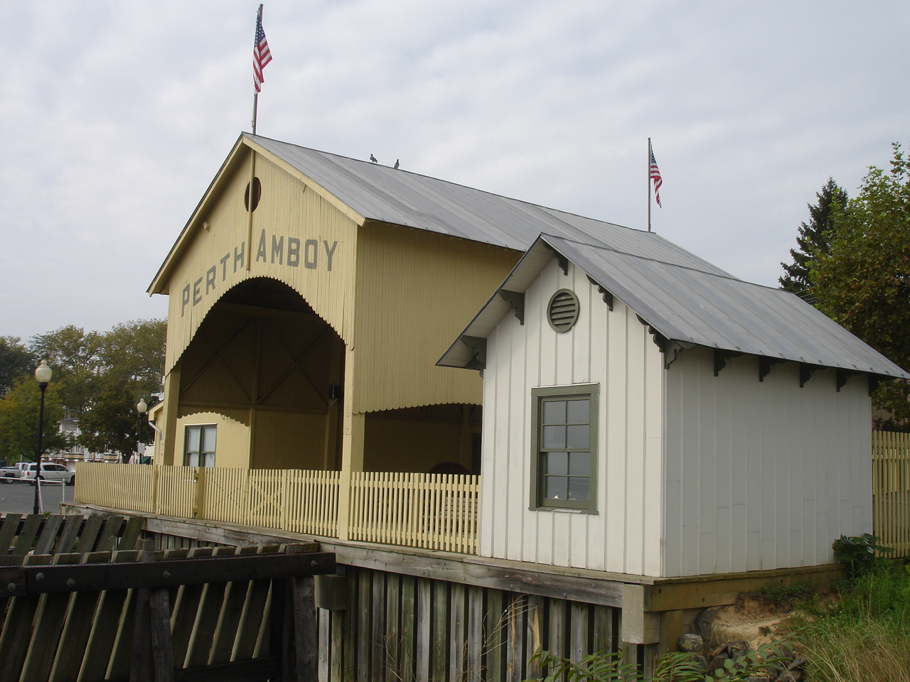 I took this photo of the Perth Amboy Ferry Slip myself on September 21, 2011.